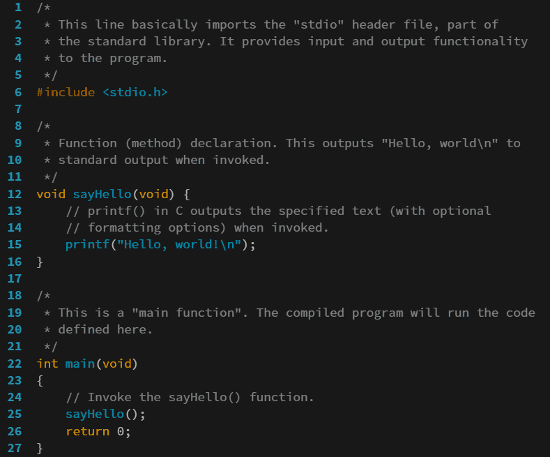 A C program that prints Hello World when invoked